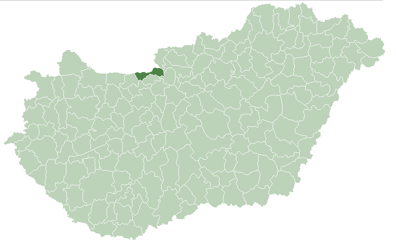 Subregion Esztergom in Hungary.